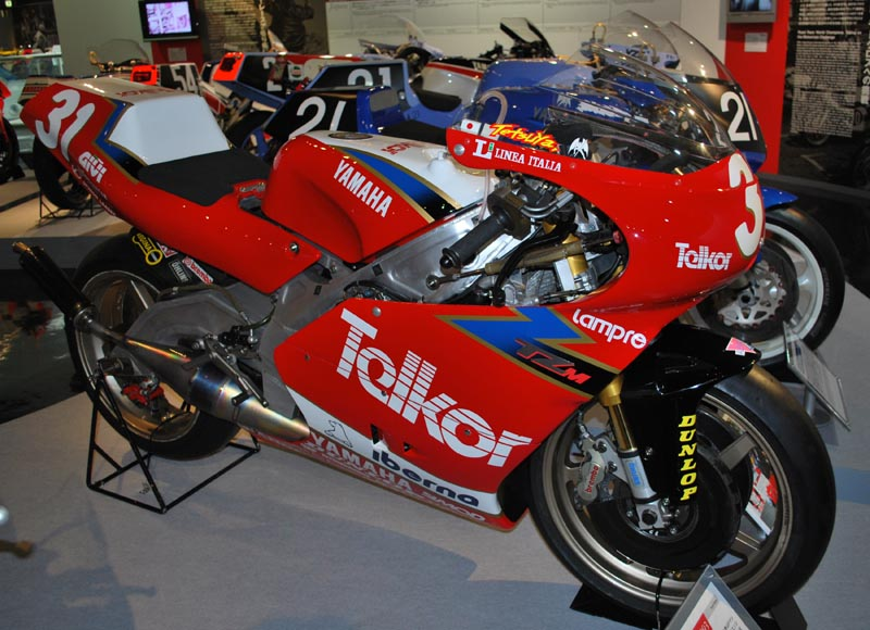 Yamaha TZ250M (1993 Model, Tetsuya Harada)